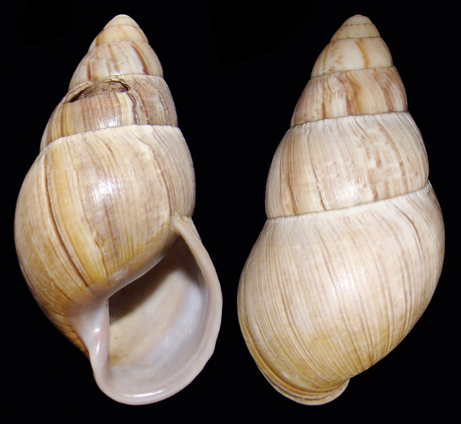 Photo of apertural and abapertural view of the shell of Thaumastus flori. Shell height 64.4 mm.